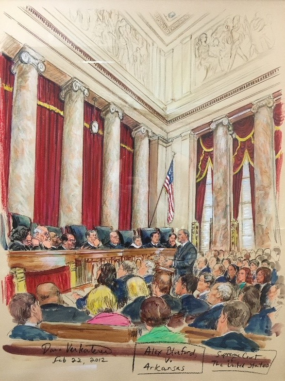 Dustin McDaniel presenting his arguments to the United States Supreme Court Justices.